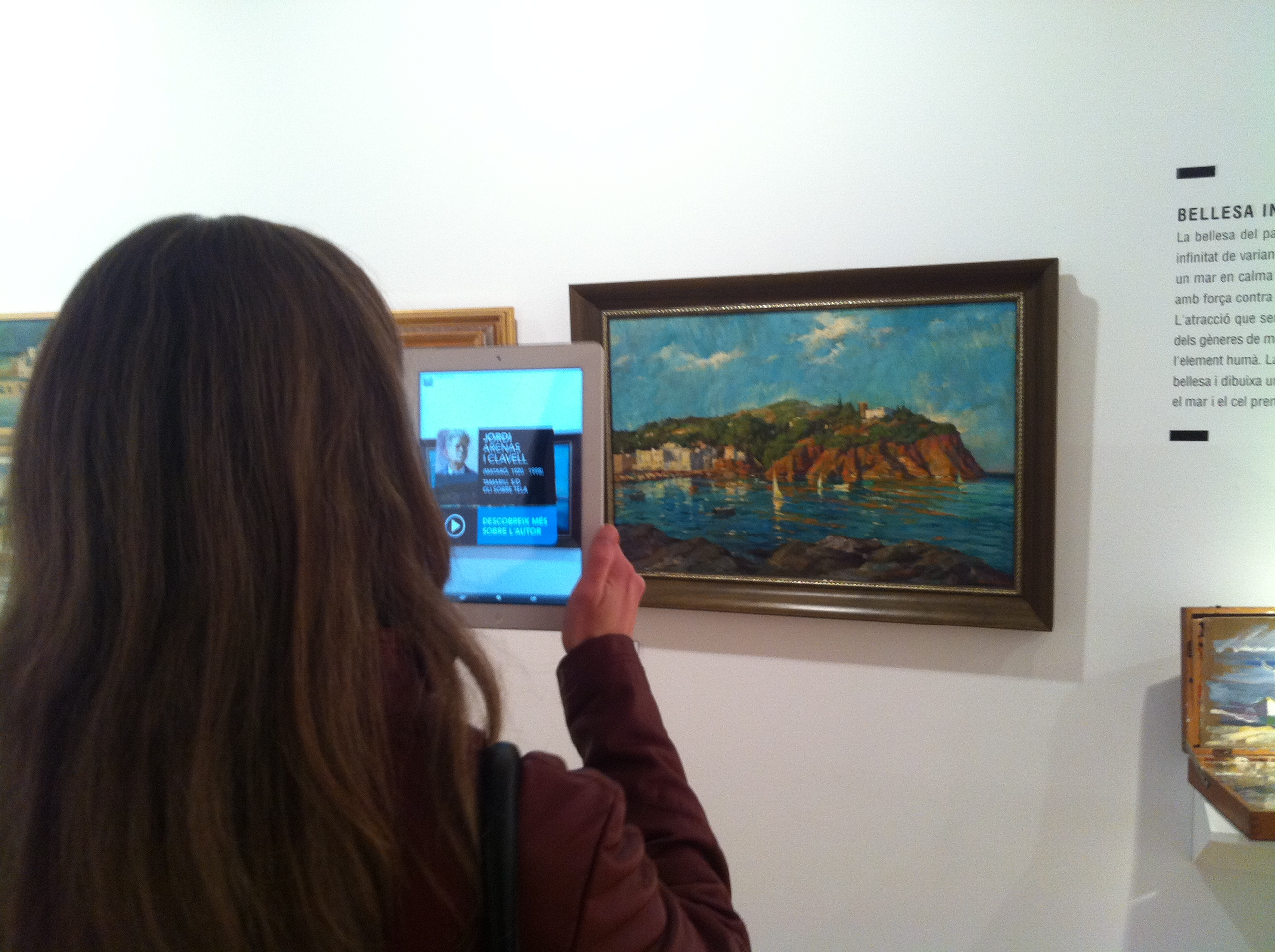 Augmented reality at Museu de Mataró linking to Catalan Wikipedia articles